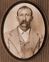 Image of Bill Downing, a notorious outlaw in Arizona. Downing was killed in 1908, before the 1924 copyright laws went into effect